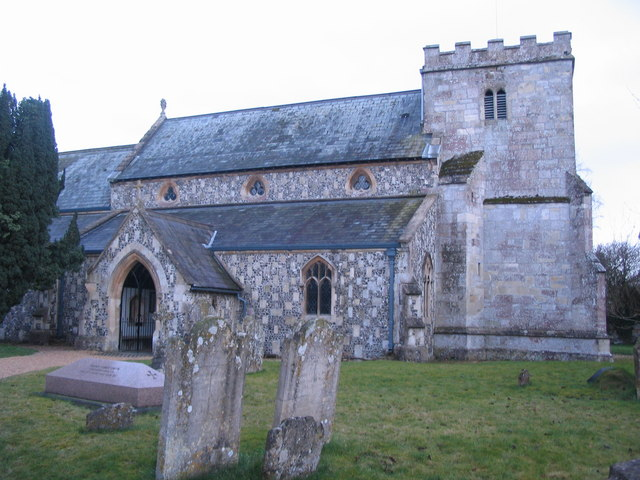 St. Marys, Shrewton. A view looking east to the church of St. Mary at Shrewton.